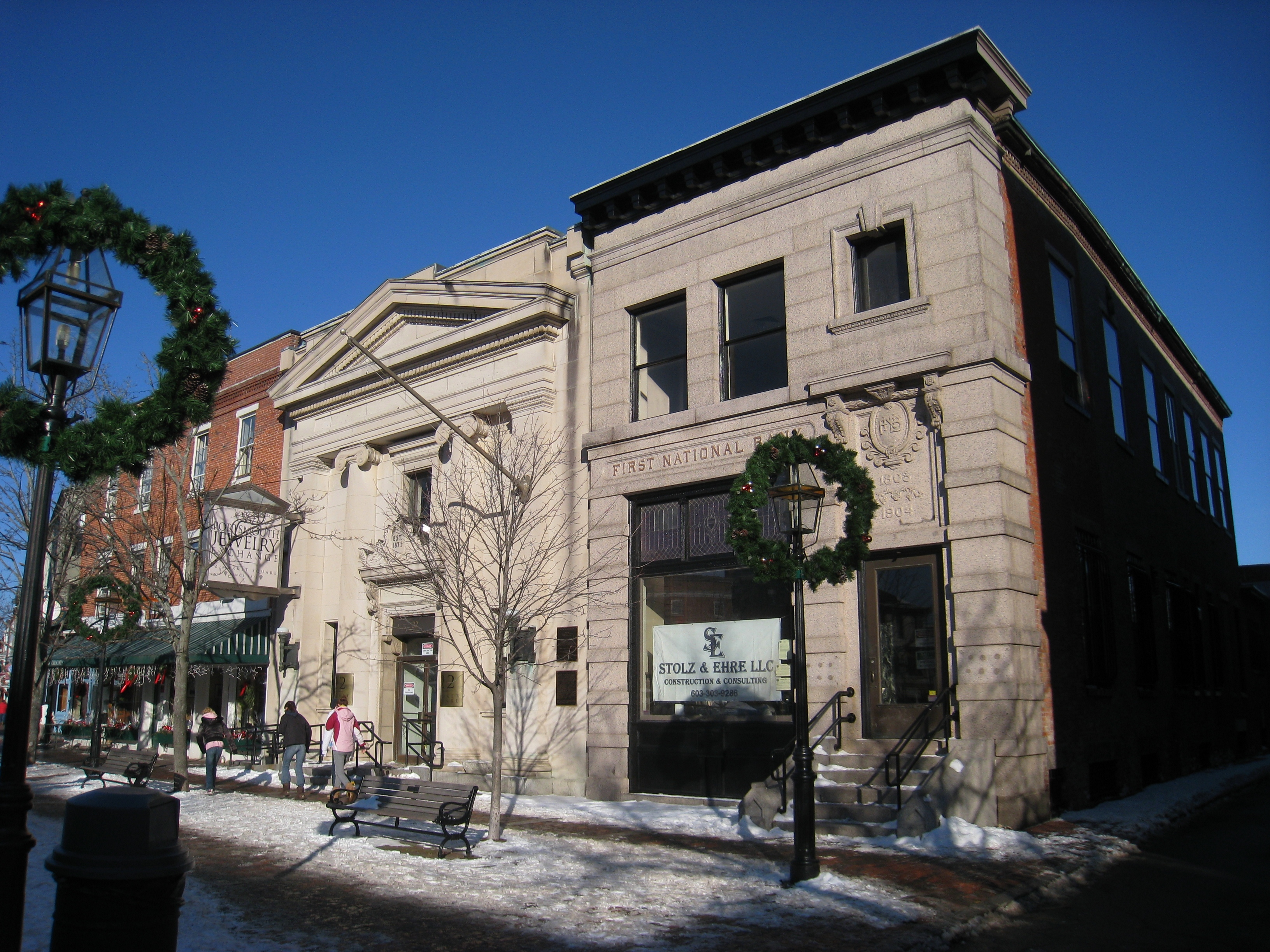 Bank(s) in Portsmouth, New Hampshire, USA. Stated to be the oldest bank building(s) in the United States, according to a sign on the facade. Built in 1803 with subsequent modifications. Listed on the National Register of Historic Places. I took this photograph. The claim "oldest building in the United States continuously occupied as a bank" was true from 1976 until 1998. The claim of "oldest bank building" was never true -- the First Bank of the United States, in Philadelphia, was built in 1796, but ceased being a bank in 1976.